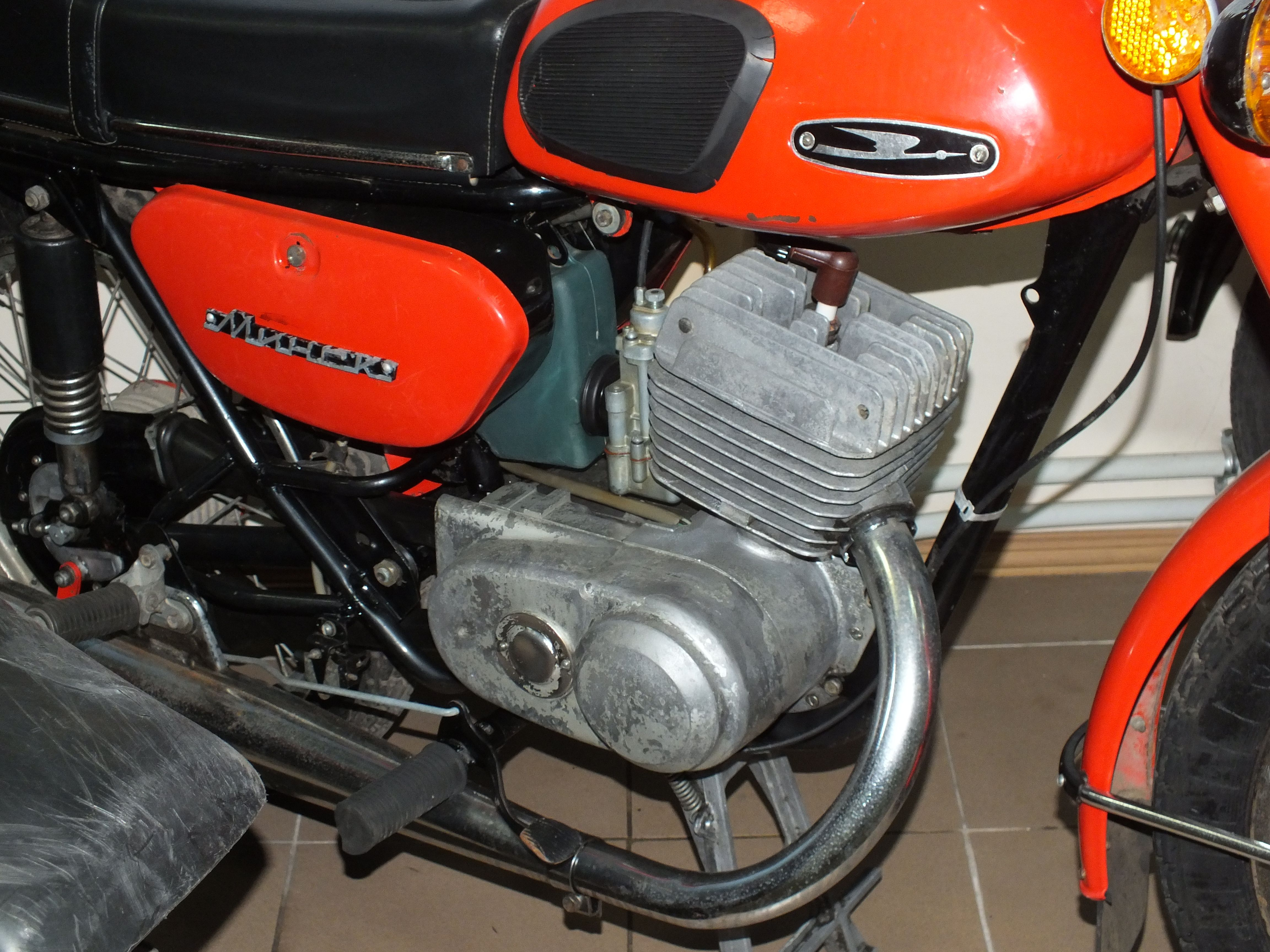 Motorcycles of Russia